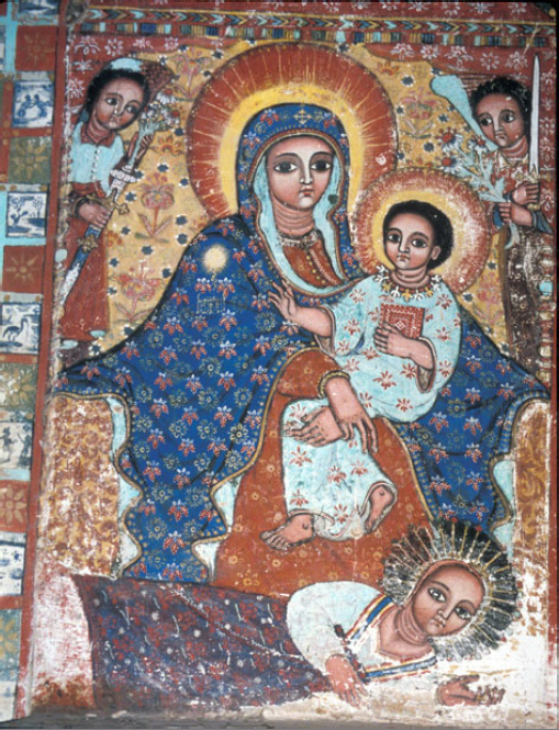 Contemporary painting of Mentewab laying prostate at the feet of Mary and Jesus at Närga Selassie